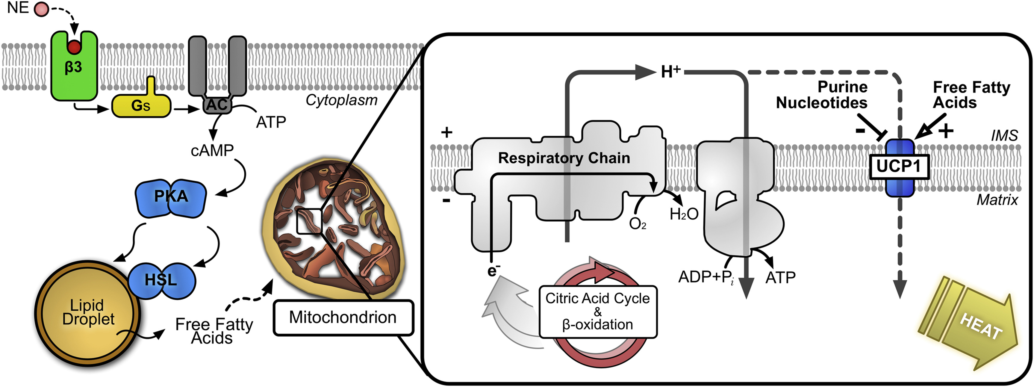 The function of uncoupling protein UCP1 is shown with respect to the electron transport chain